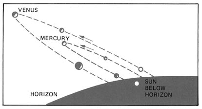 Caption from source: "Because Mercury and Venus orbit the Sun within Earth's orbit, they stay close to the Sun in the sky as seen from Earth. At their greatest angular distance from the Sun they are said to be at elongation. Here the two planets are shown at eastern elongation; they set after the Sun and appear as evening stars."